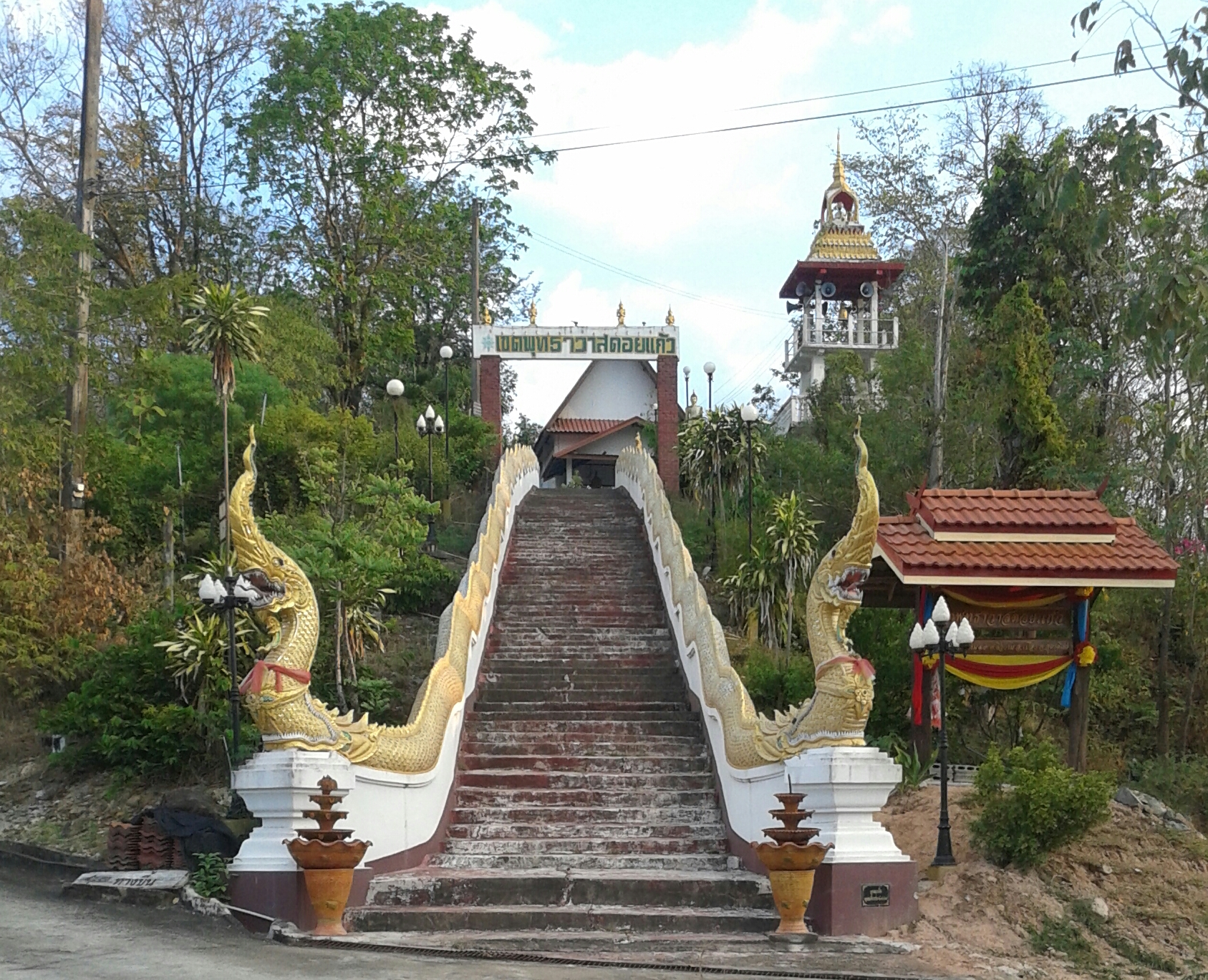 Ban Ngew-Ngam